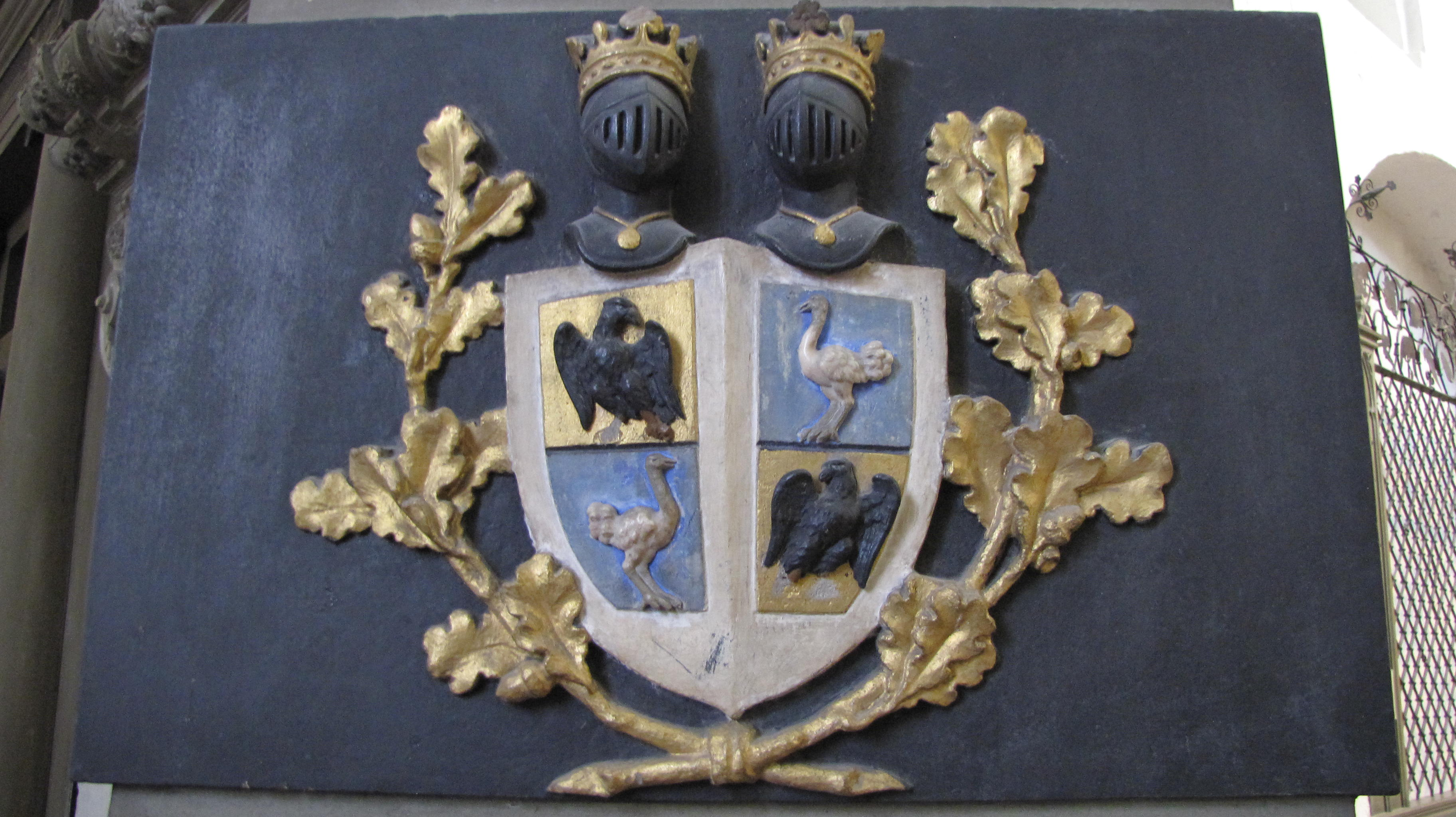 Coat iof arms of Meerheimb family at epitaph of von Meerheimb, Marienkirche Rostock